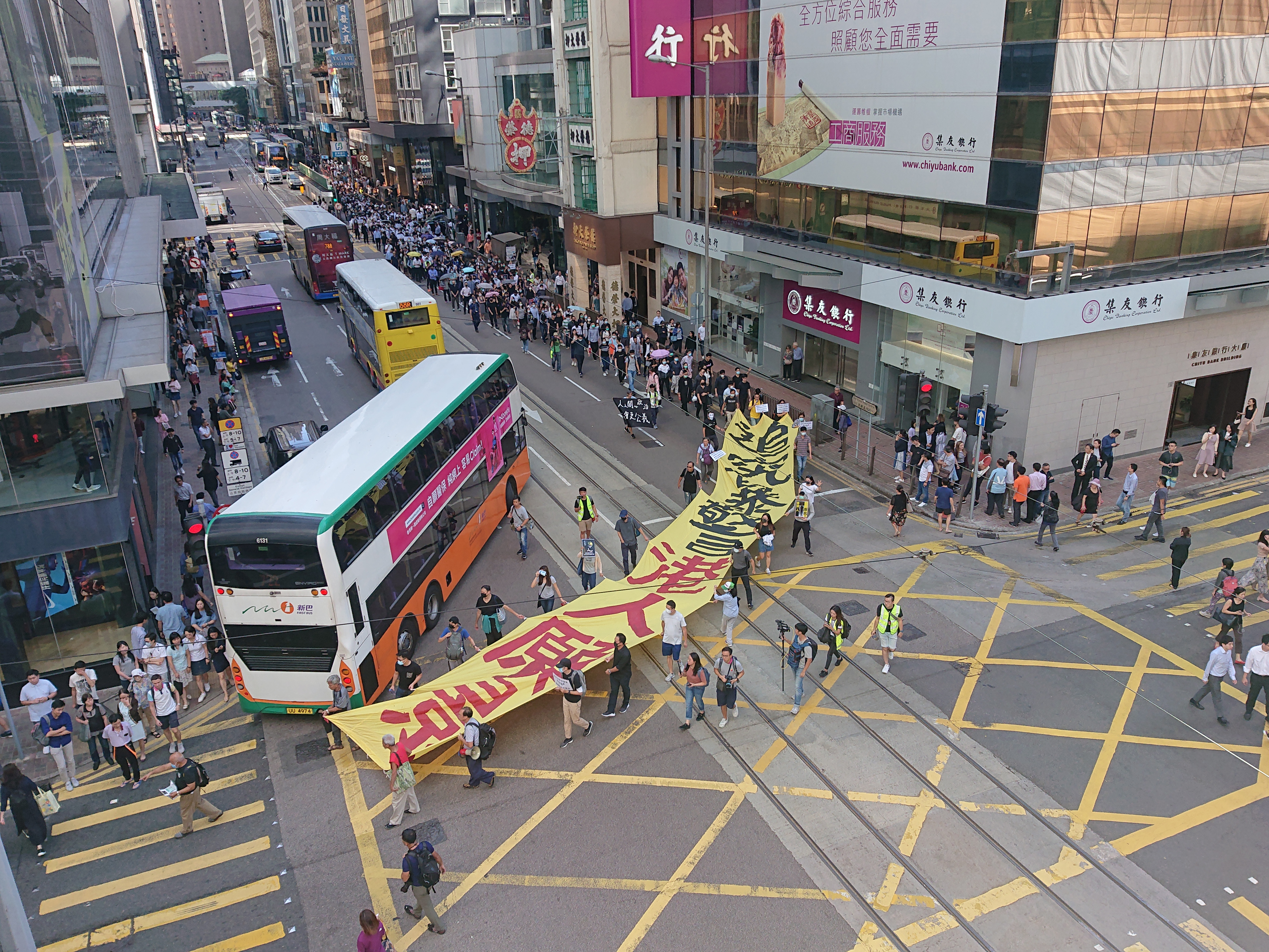 2019-11-01 Central Protest on Des Voeux Road Central near Queen Victoria Street (1)